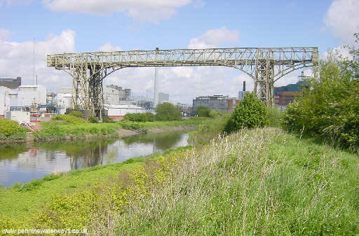 Warrington Transporter Bridge The now-disused transporter bridge across the River Mersey at Bank Quay, Warrington.